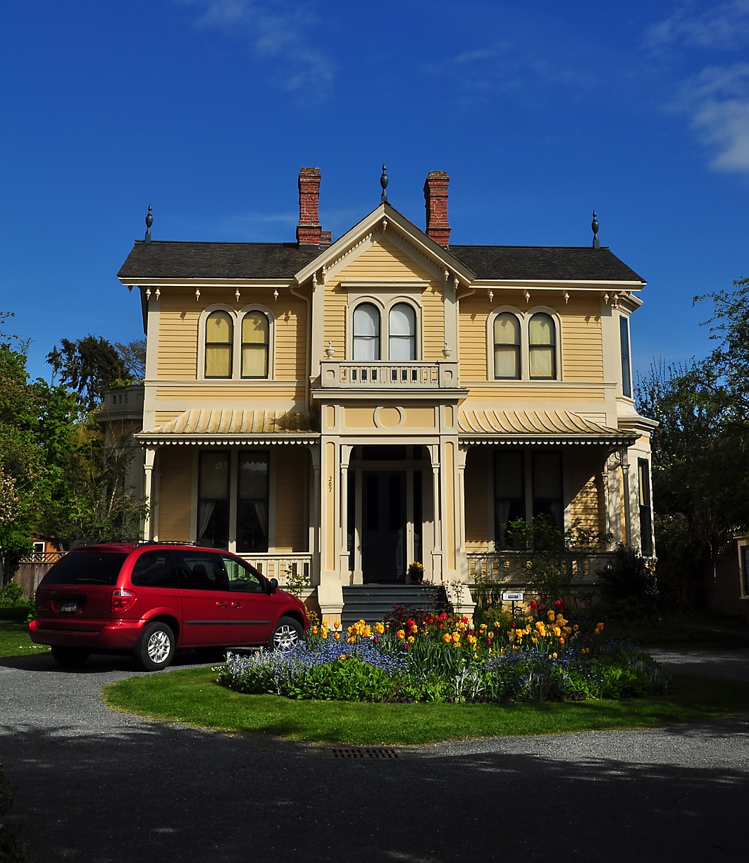 This is the house in which Emily Carr was born in 1871. She spent much of her life within walking distance of this neighbourhood.